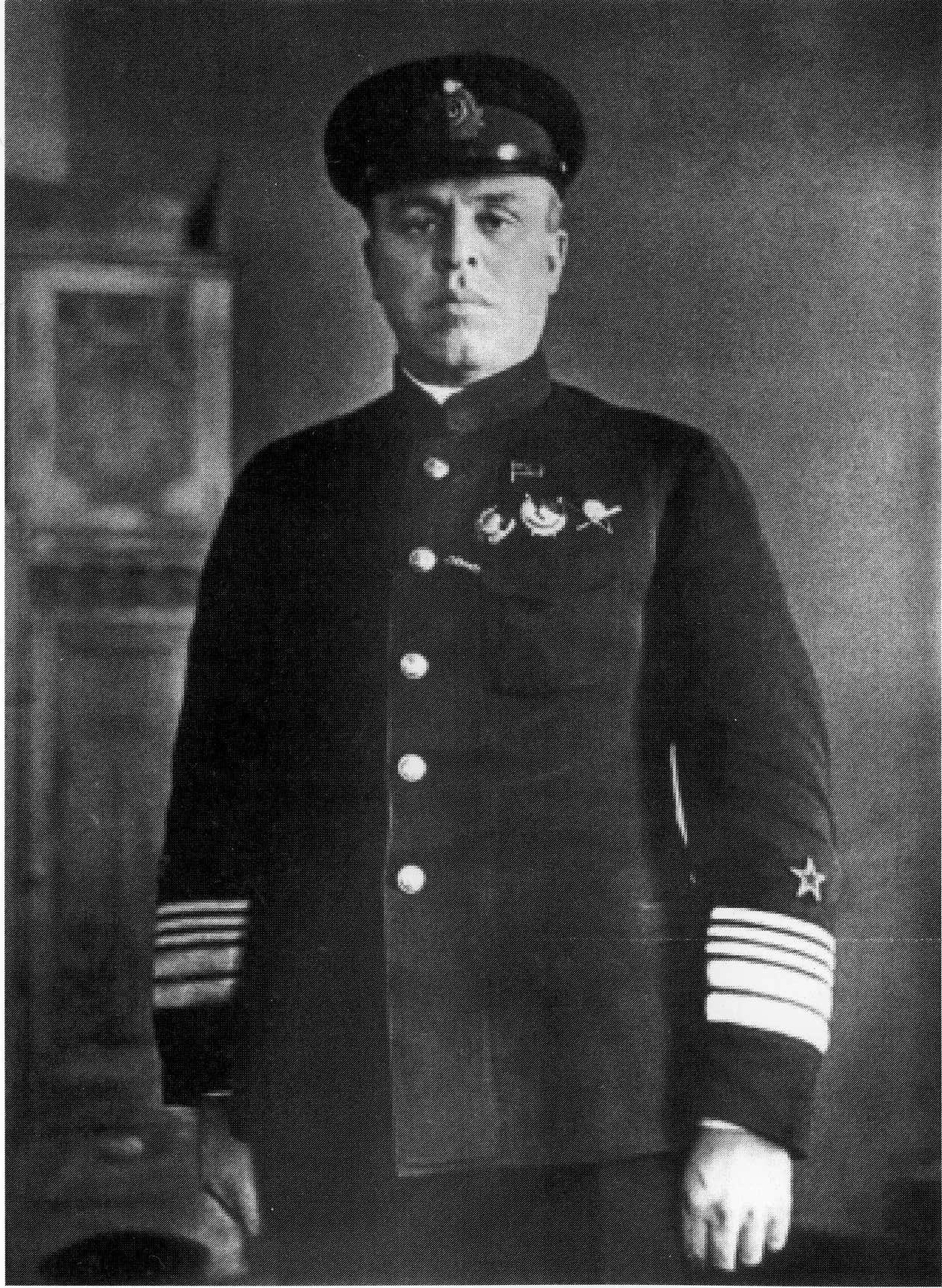 Mikhail Vladimirowitsch Viktorov (1894-1938), was a Soviet Admiral.